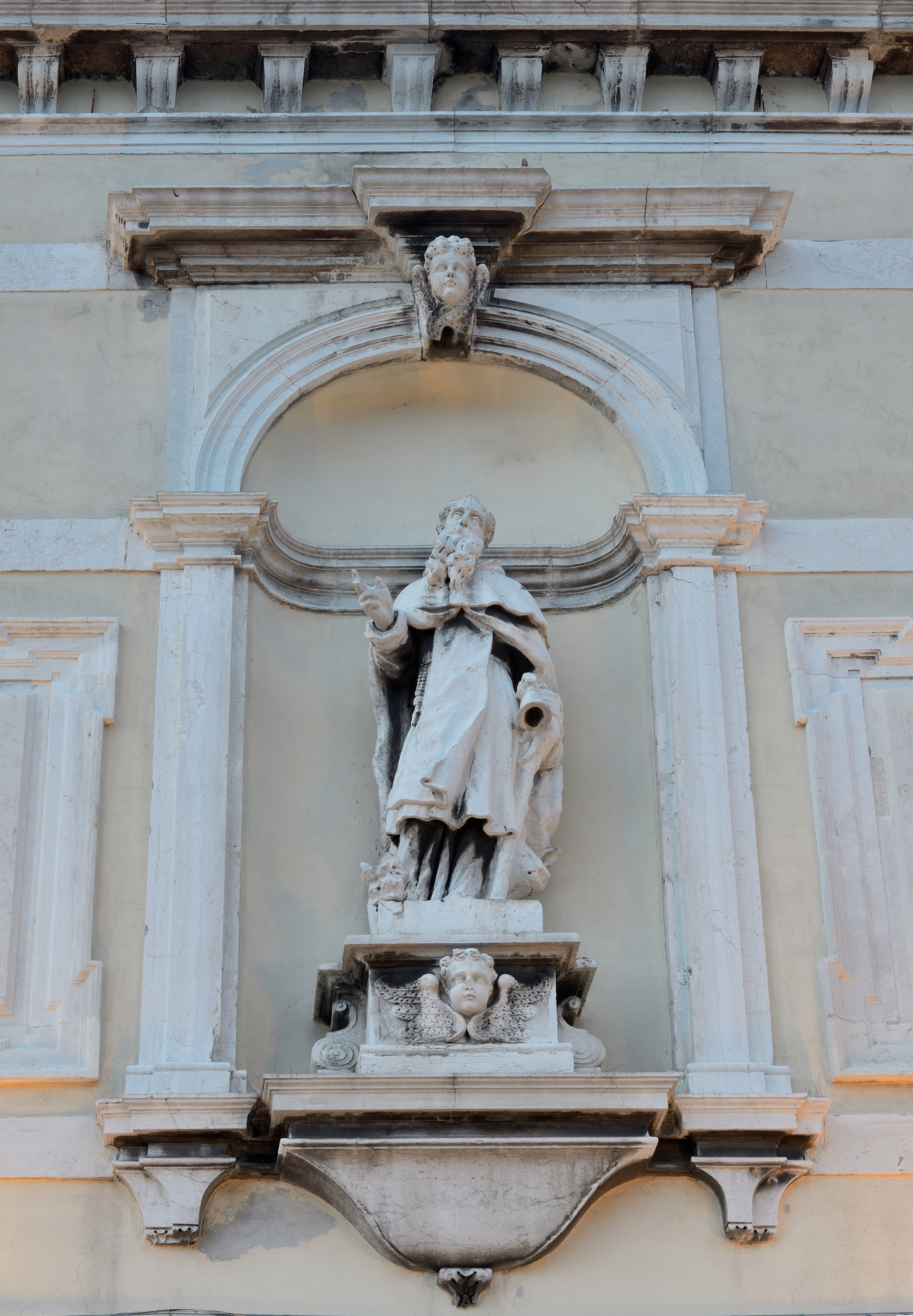 Detail of facade of the Palazzo Restaurant Riviera in Venice.